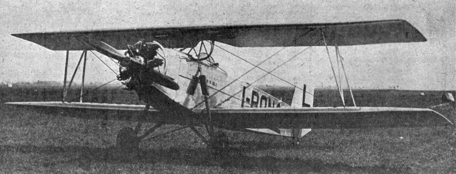 Avia BH-29 photo from L'Aérophile June,1928